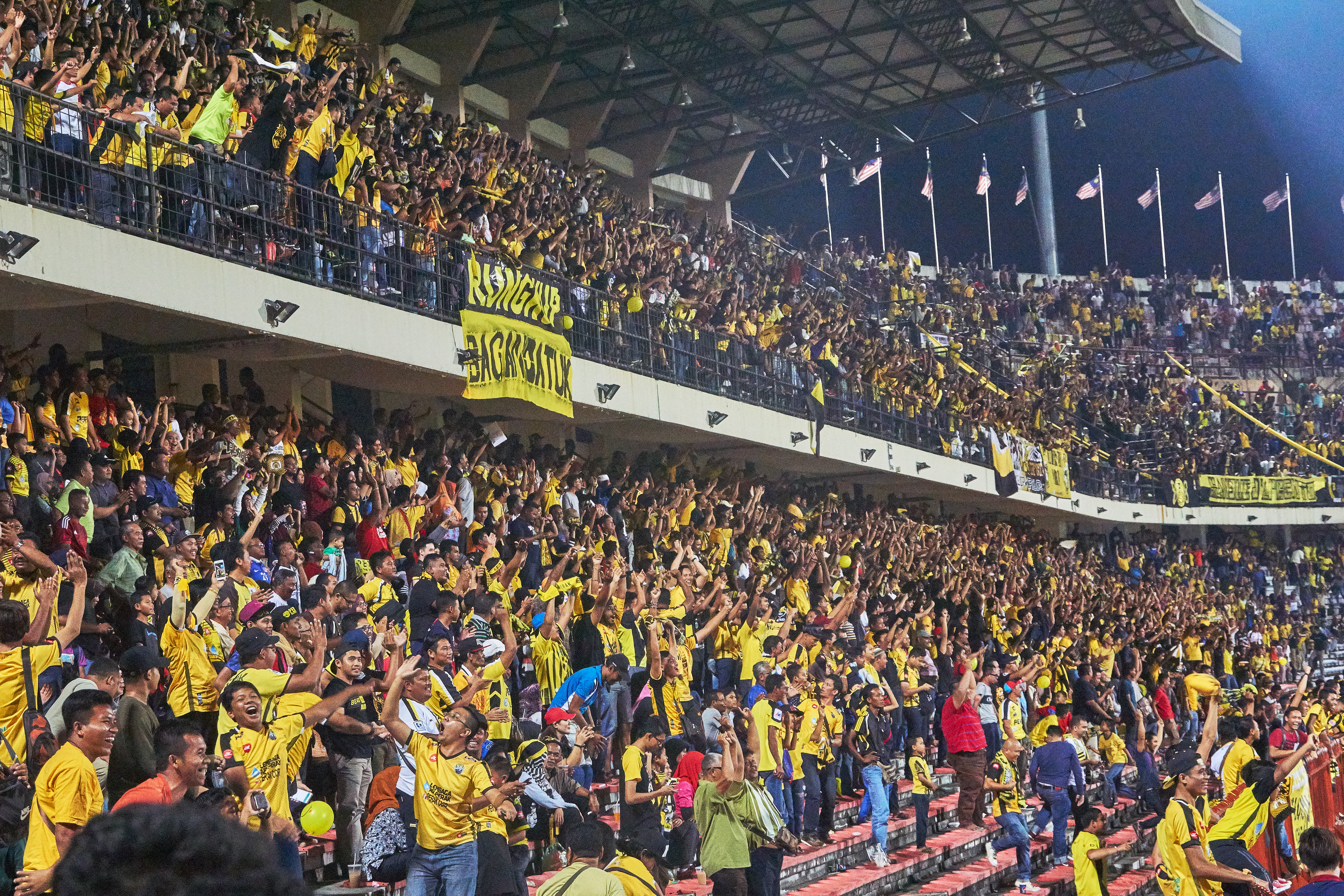 Perak against Pahang FA during the quarter-finals of 2017 Malaysia Cup at Perak Stadium in Ipoh, Malaysia.